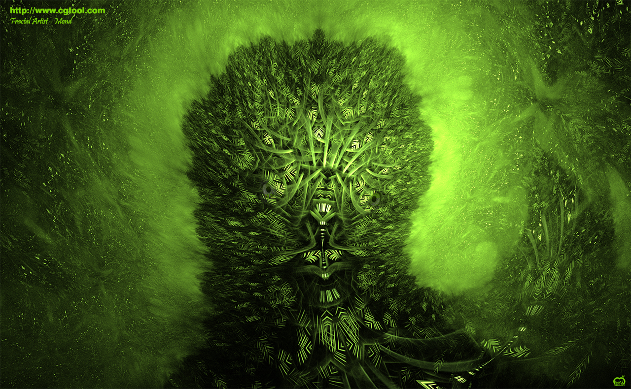 [Fractal Art] Angry bird